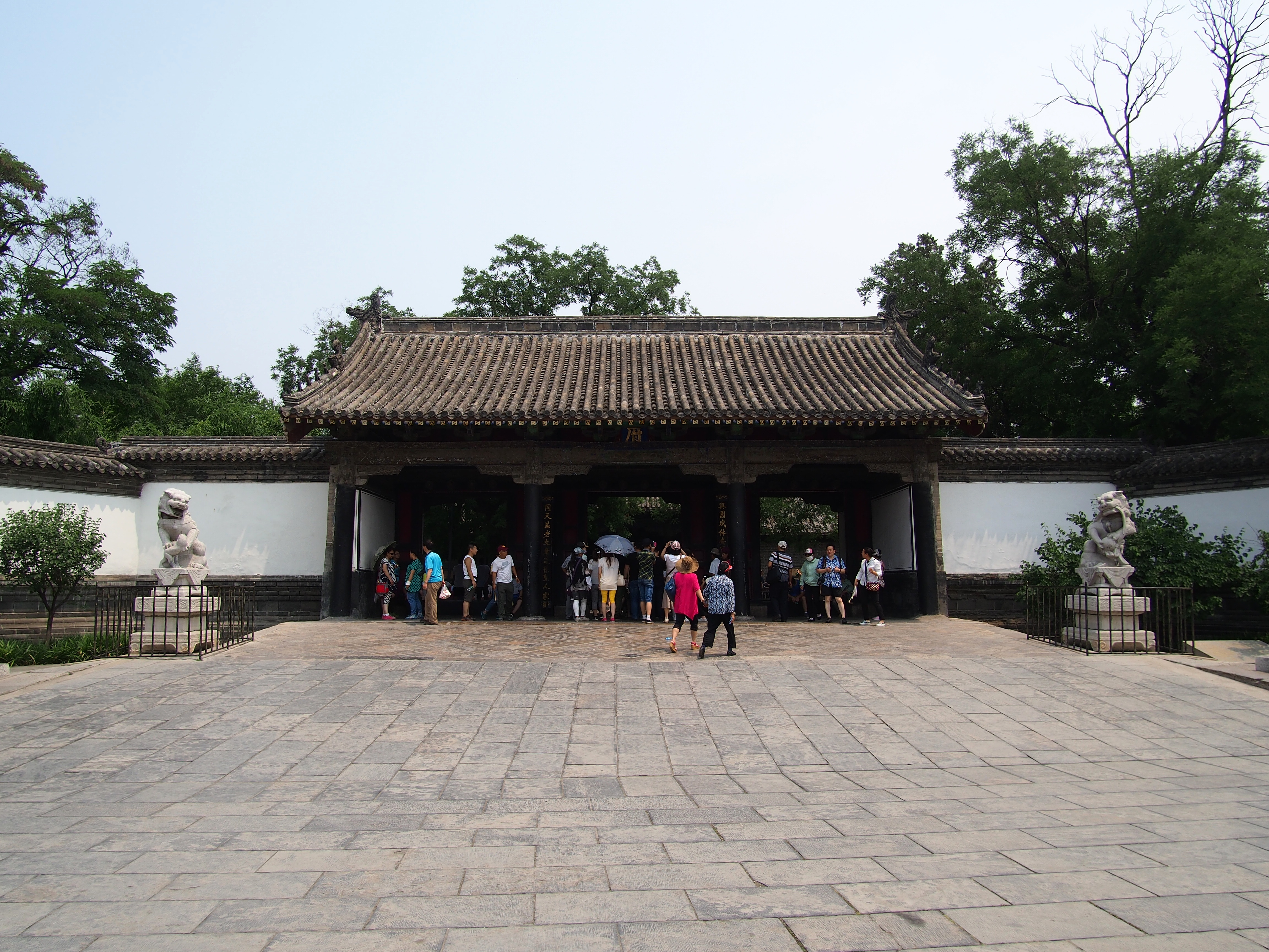 孔府入口 - Entrance of Kong Family Mansion - 2015.06